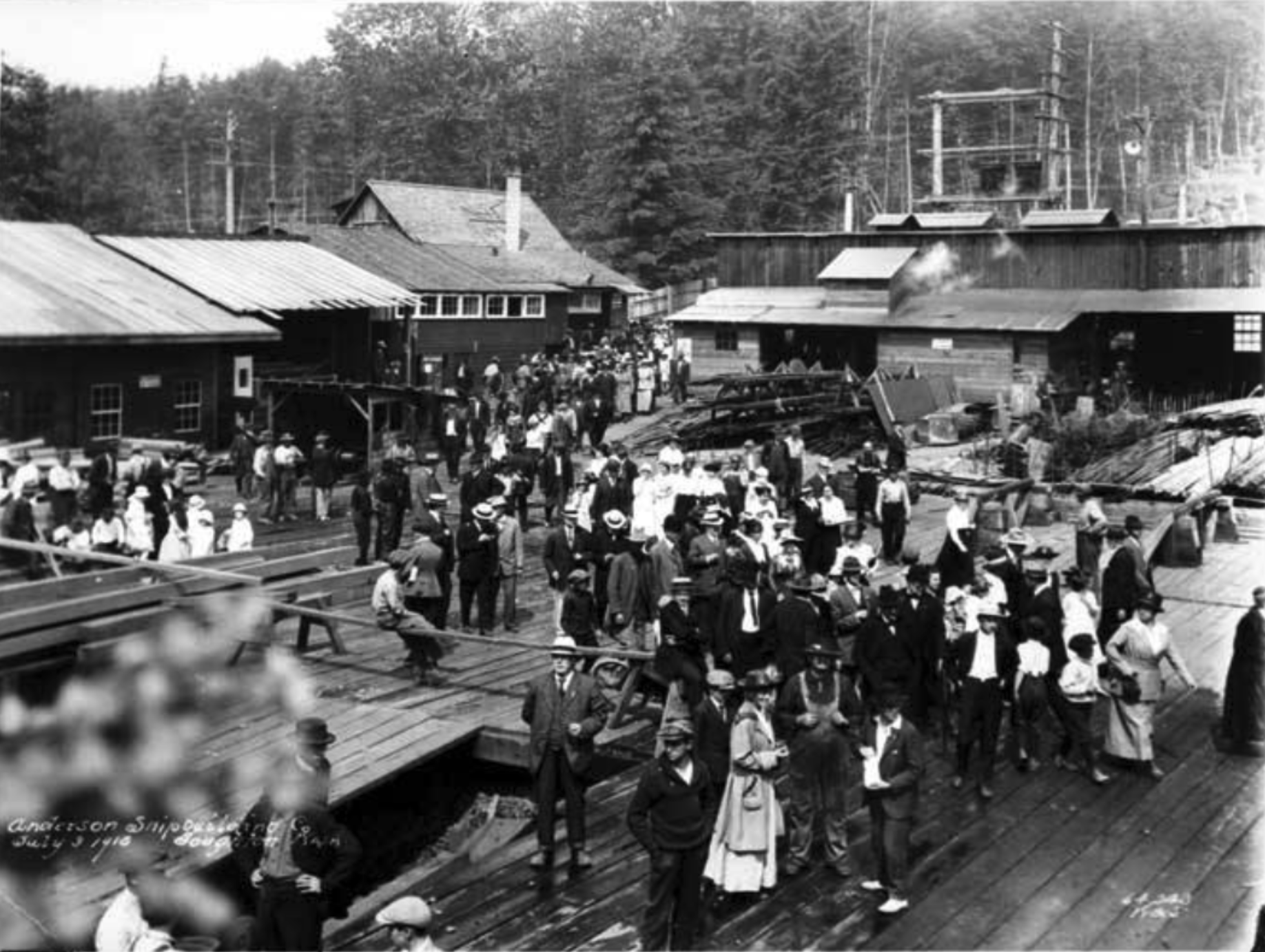 This crowd is exploring the Anderson Shipbuilding Corporation shipyard during launch ceremonies for the steamship Osprey